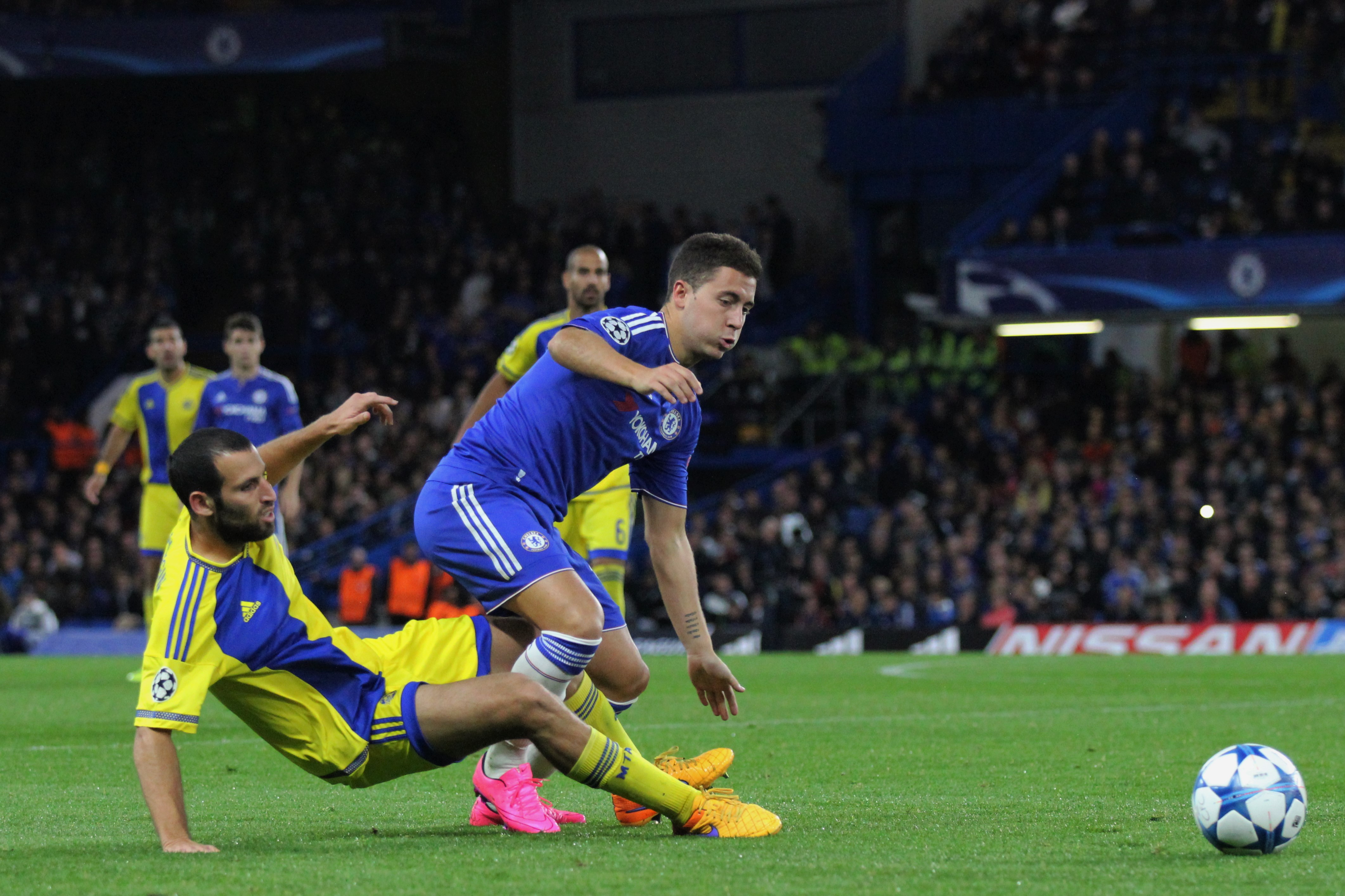 Yuval Shpungin of Maccabi Tel-Aviv challenges Eden Hazard of Chelsea for the ball during the Champions League group stage game.